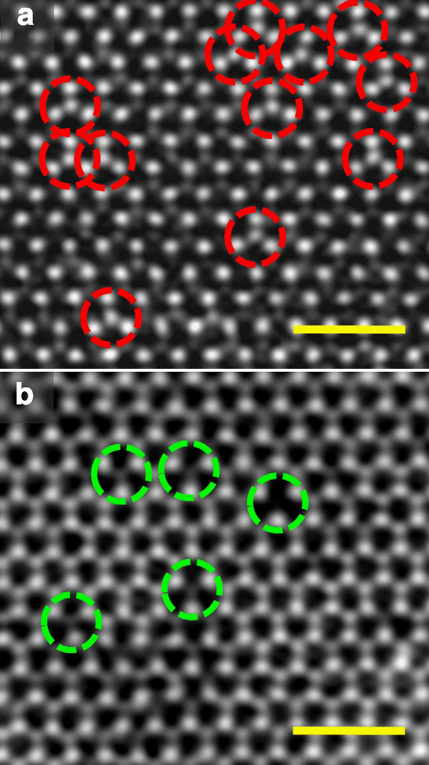 Atomic resolved STEM–ADF images to reveal the distribution of different point defects. (a) Antisite defects in PVD MoS2 monolayers. Scale bar, 1 nm. (b) Vacancies including VS and VS2 observed in ME monolayers, similar to that observed for CVD sample. Scale bar, 1 nm.